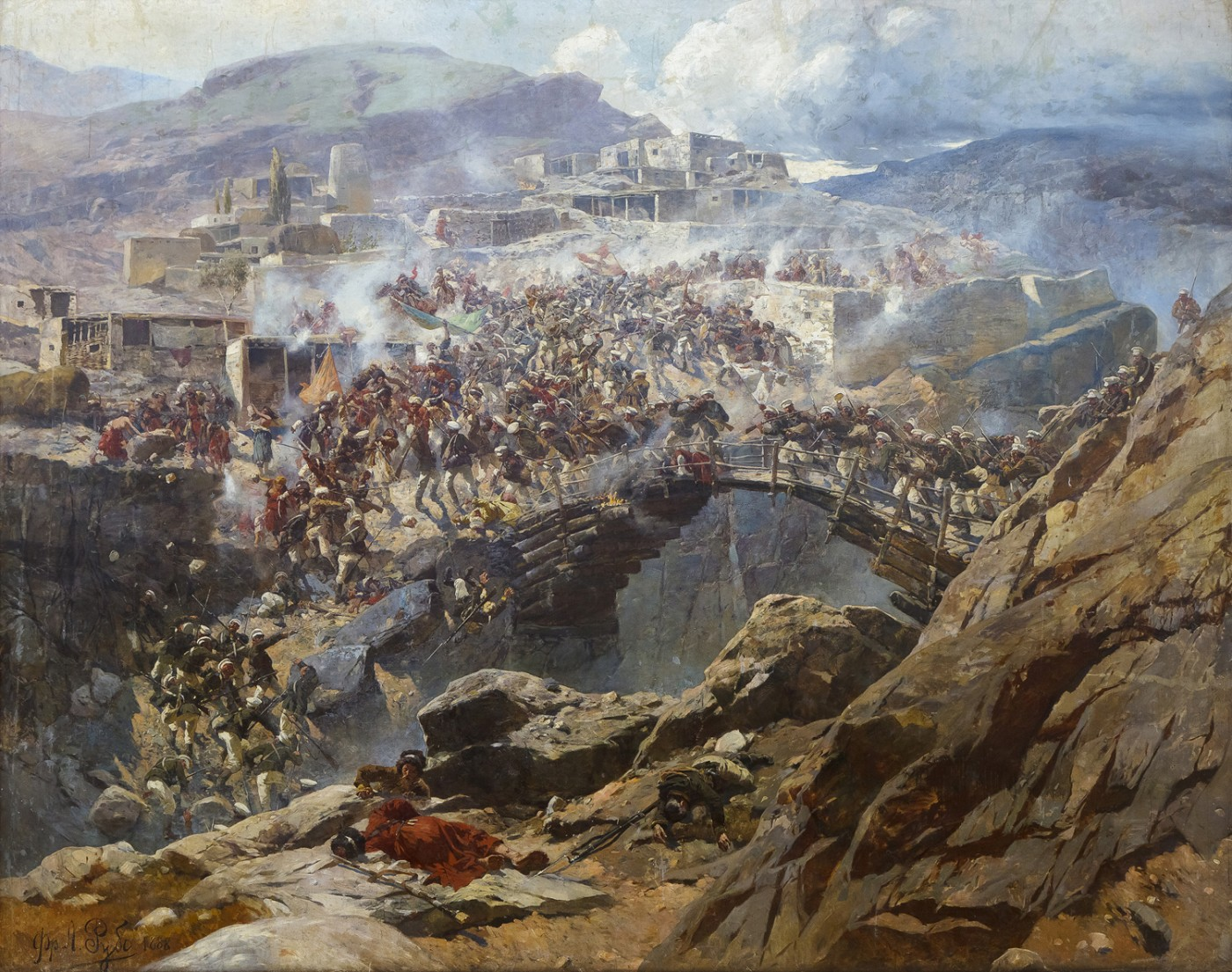 Akhulgo